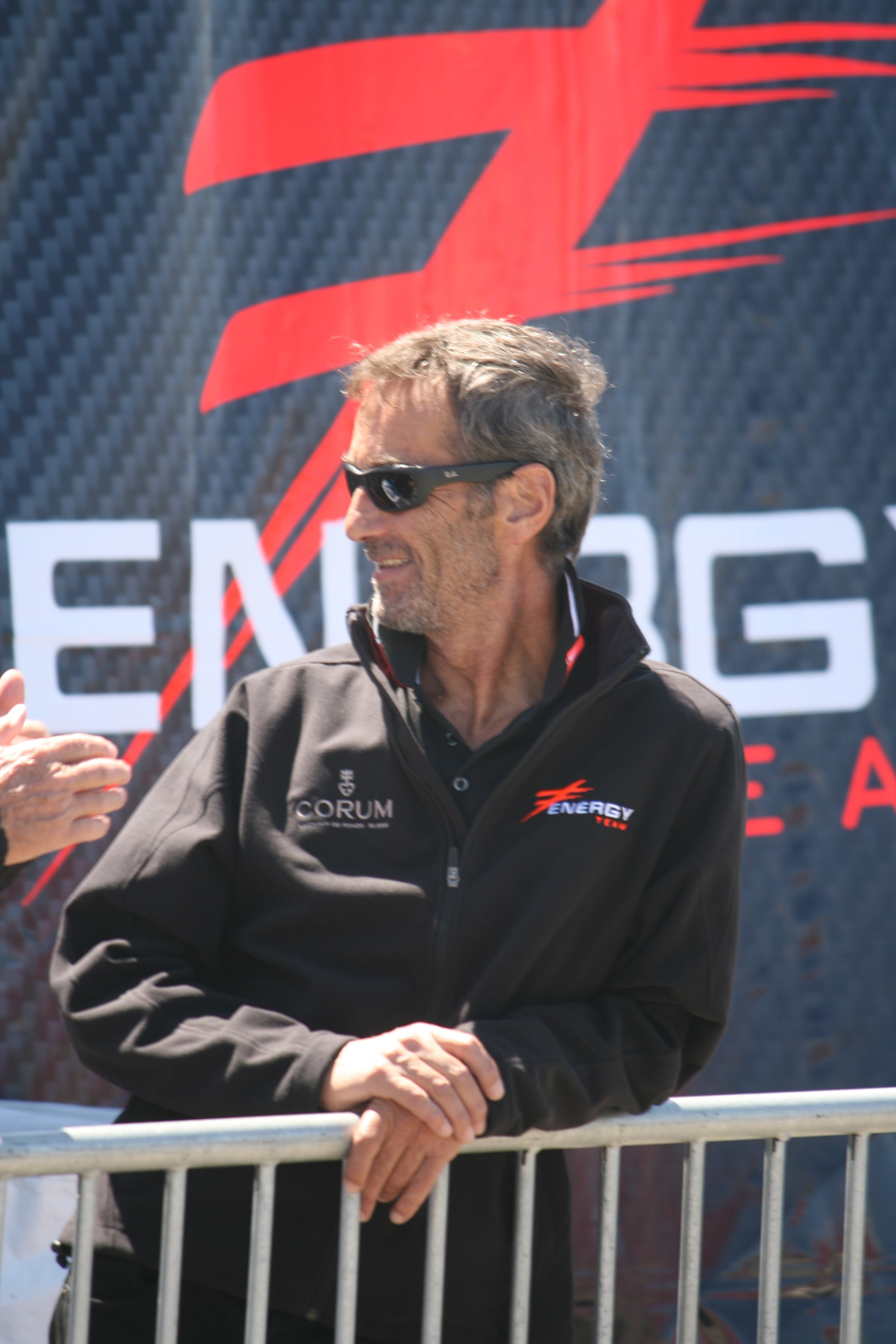 Bruno Peyron in 2012, at the America's Cup.